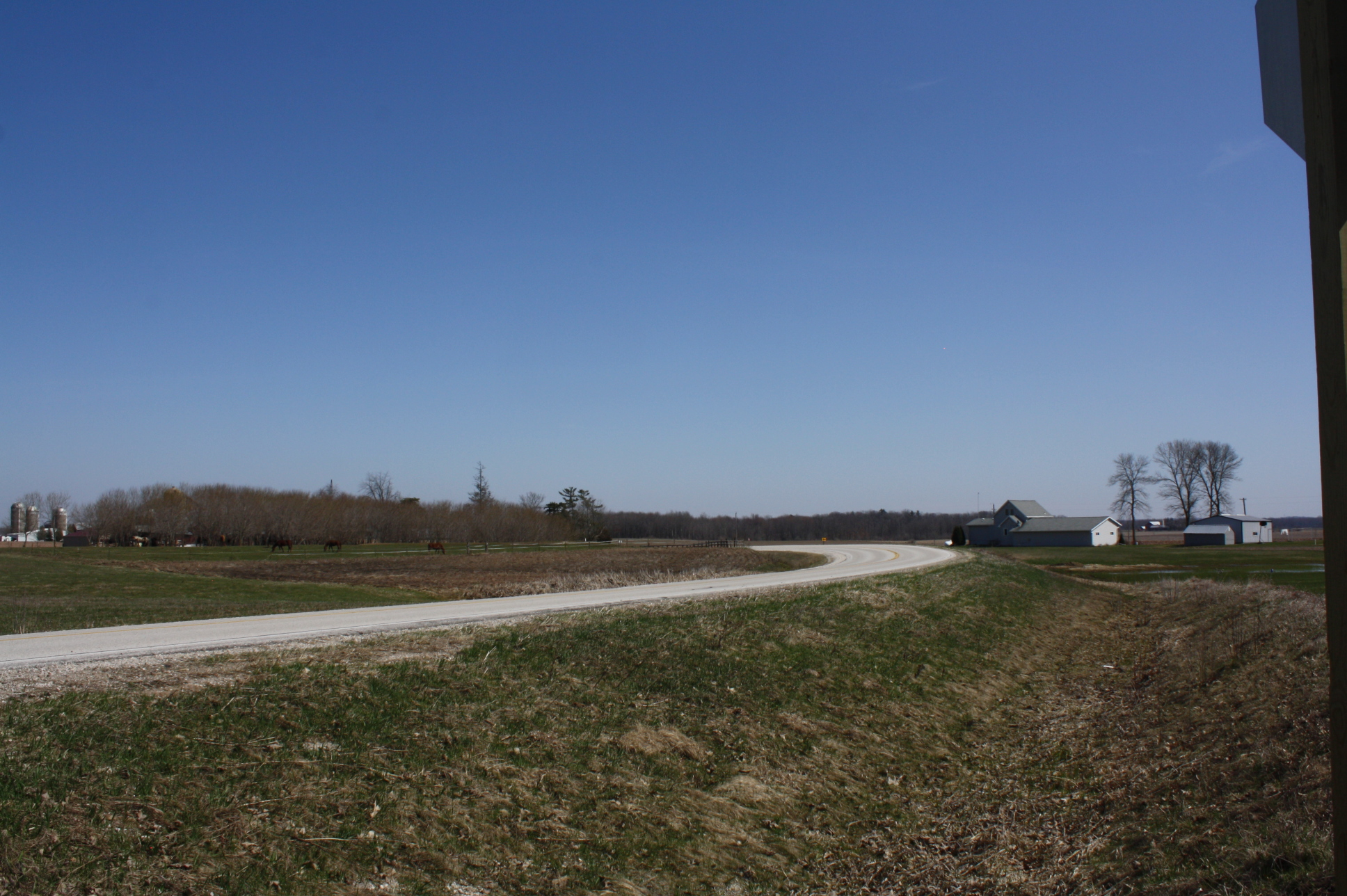 Looking south in Wells, Manitowoc County, Wisconsin.